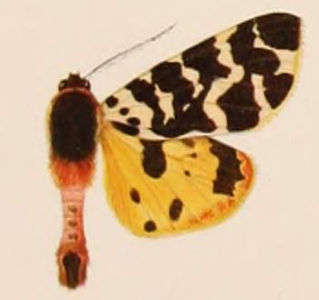 Adult, dorsal view